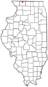 Category:Illinois city locator maps